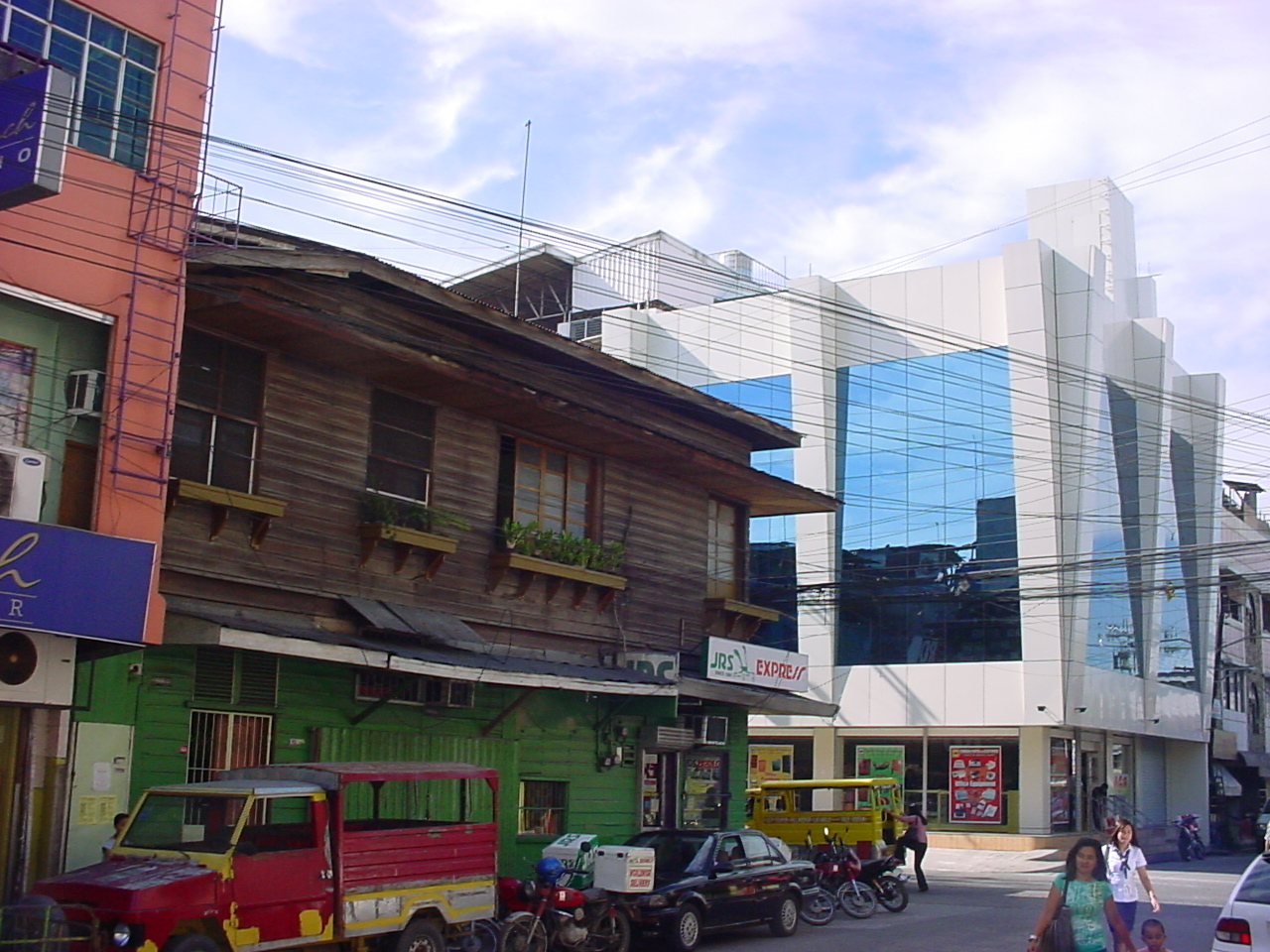 Old and new in the city of Iligan, Mindanao.